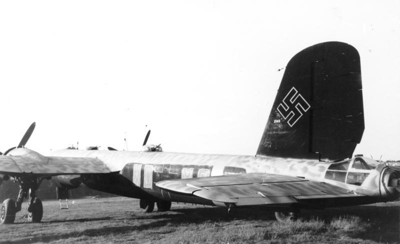 Information added by Wikimedia users.A Heinkel He 177 A-3, factory Werknummer of 332 143, with original Stammkennzeichen of VD+XS, that flew with the advanced training unit Flugzeugführerschule (B) 16 at Burg bei Madgeburg in 1943.